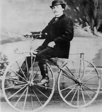 French inventor Pierre Lallemant (1843-1891) riding his own invention in Paris in 1870.